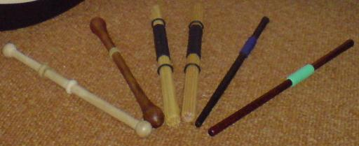 various bodhran tippers (i.e. mallet, beater, cipin, stick, ...)